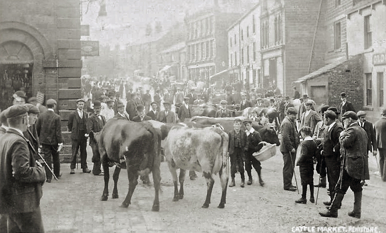 Cattle Market on Market Street, looking south towards High Street, from the junction with St Mary's Street at Penistone in the historical West Riding of Yorkshire, now South Yorkshire, England.